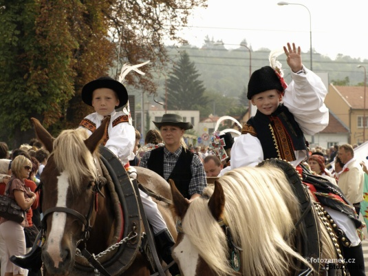 František Zemek